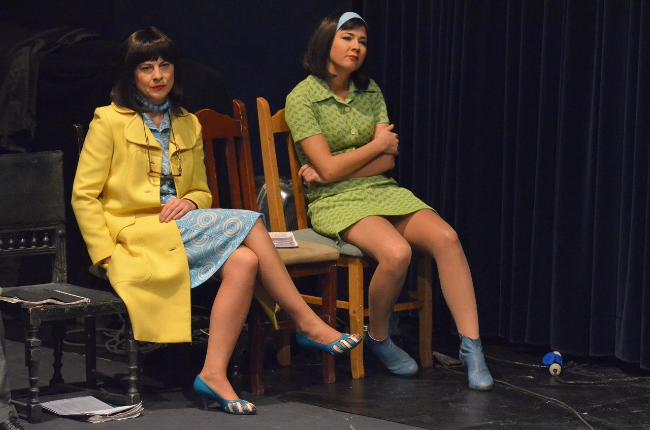 "The Death of Ivan Ilyich" by Leo Tolstoy; directed by Tomi Janežič, Co-Production: Serbian National Theatre; Institution Student Cultural Centre in Novi Sad & Bitef, Belgrade 2014/15; Jasna Đuričić, Tijana Marković; Јасна Ђуричић, Тијана Марковић Srpski (latinica): „Smrt Ivana Iljiča” Lava Tolstoja ; režija Tomi Janežič; koprodukcija: Srpsko narodno pozorište, Studentski kulturni centar, Novi Sad i Bitef, Beograd; 2014/15; Jasna Đuričić, Tijana Marković Српски (ћирилица): „Смрт Ивана Иљича“ Лава Толстоја; режија Томи Јанежич; копродукција: Српско народно позориште, Студентски културни центар, Нови Сад и Битеф, Београд; 2014/15; Јасна Ђуричић, Тијана Марковић